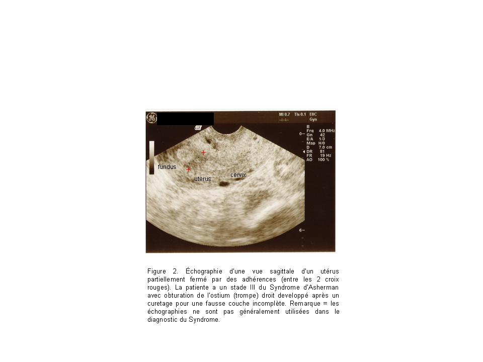 Ultrasound of uterus with intrauterine adhesions (Asherman's syndrome).